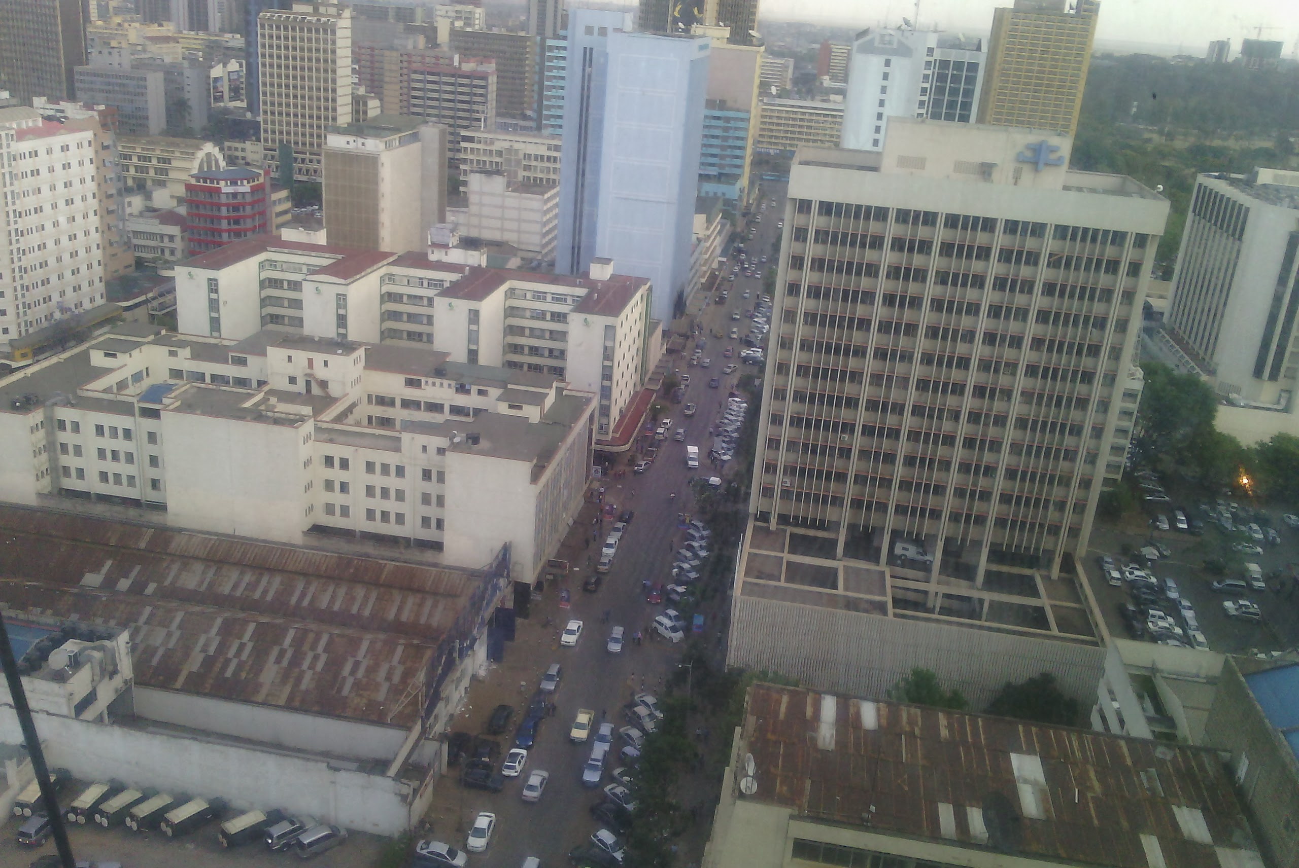 This is an image with the theme "Africa on the Move or Transport" from: Kenya